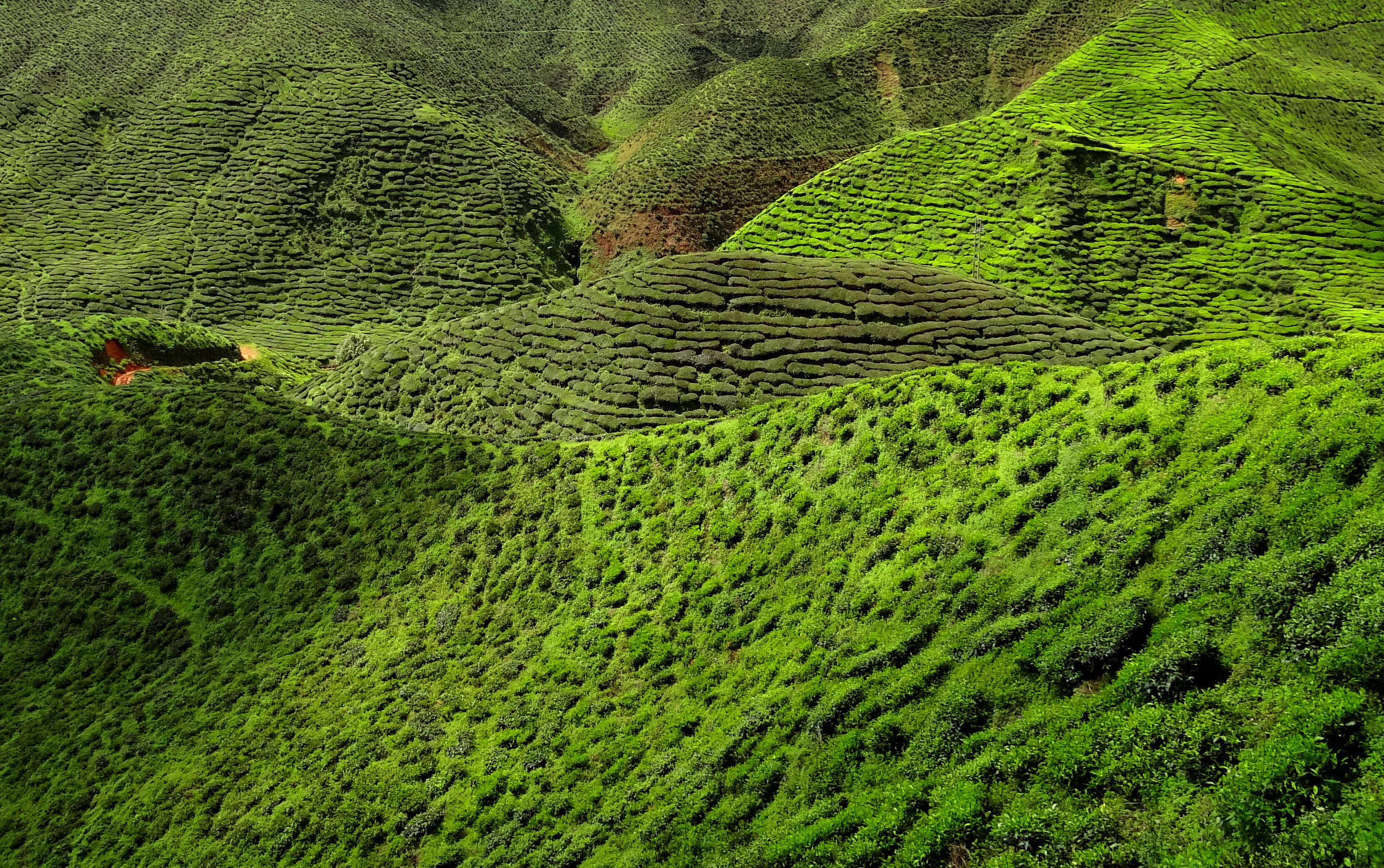 An example of what an intricate labyrinth of Camellia sinensis bushes a tea plantation can be.